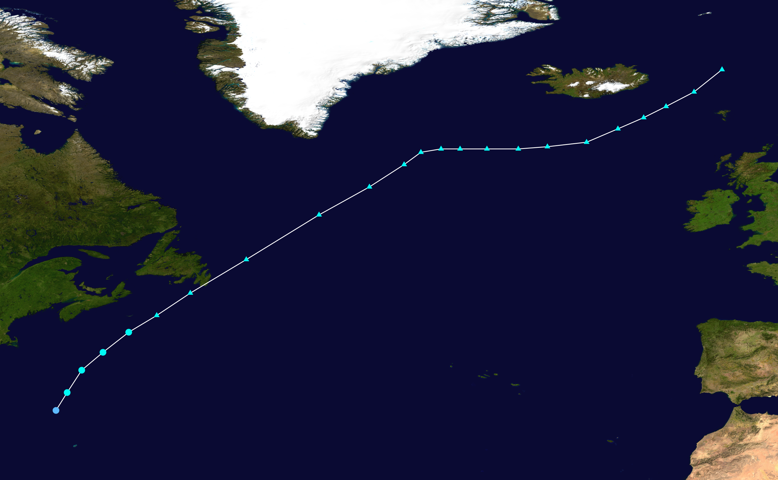 Track map of Tropical Storm Chantal of the 2007 Atlantic hurricane season. The points show the location of the storm at 6-hour intervals. The colour represents the storm's maximum sustained wind speeds as classified in the Saffir–Simpson scale (see below), and the shape of the data points represent the nature of the storm, according to the legend below. Saffir–Simpson scale Tropical depression≤38 mph≤62 km/h Category 3111–129 mph178–208 km/h Tropical storm39–73 mph63–118 km/h Category 4130–156 mph209–251 km/h Category 174–95 mph119–153 km/h Category 5≥157 mph≥252 km/h Category 296–110 mph154–177 km/h Unknown Storm type Tropical cyclone Subtropical cyclone Extratropical cyclone / Remnant low / Tropical disturbance / Monsoon depression